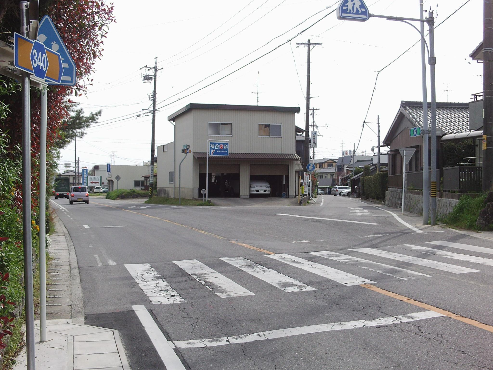 Aichi prefectural road No.340 in Hosokawacho, Okazaki, Aichi.